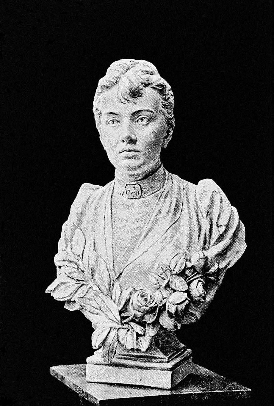 A bust of Russian mathematician and writer Sofya Vasilyevna Kovalevskaya